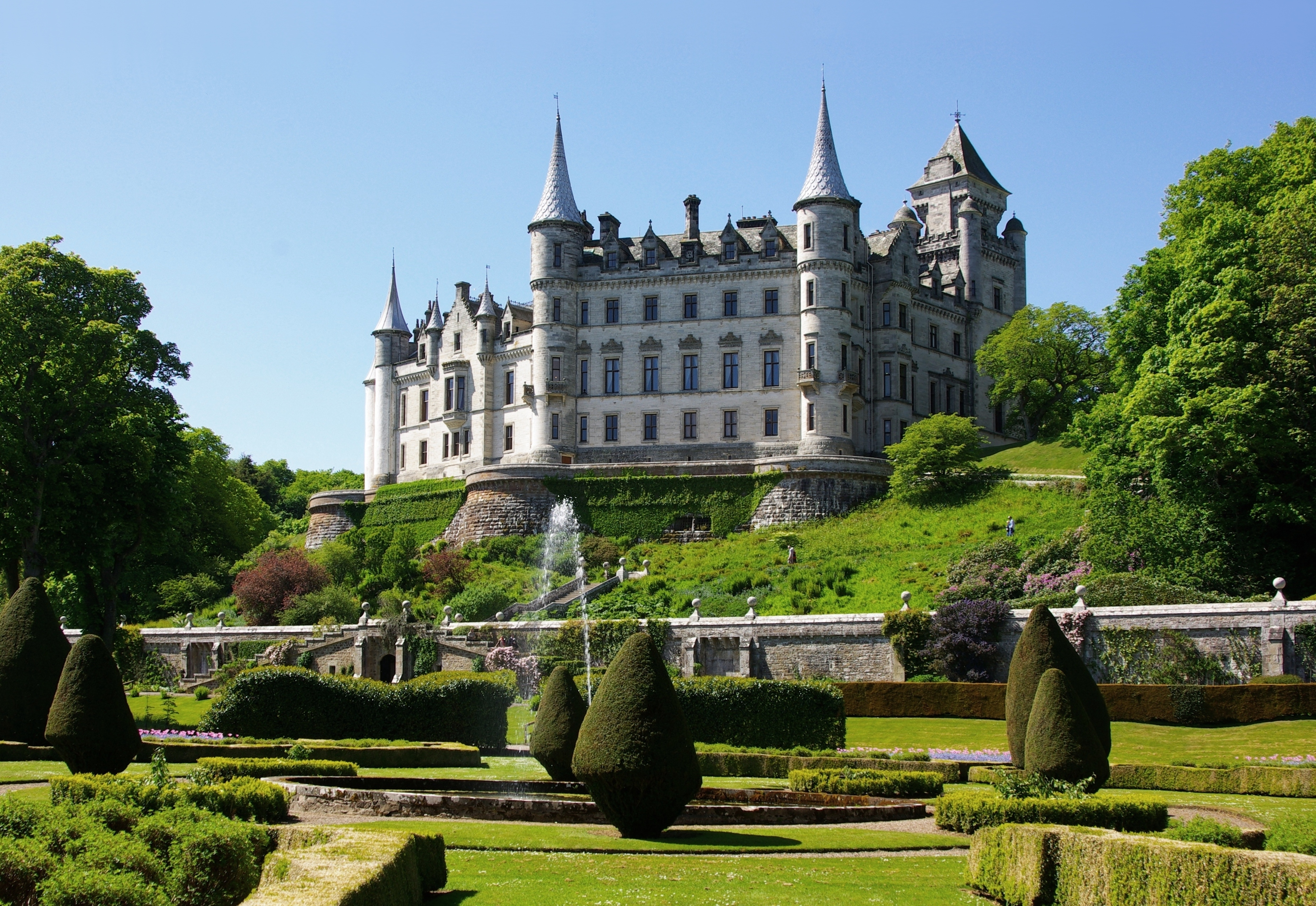 Dunrobin Castle and gardens, Sutherland, in the Highland area of Scotland. Seen from the east.